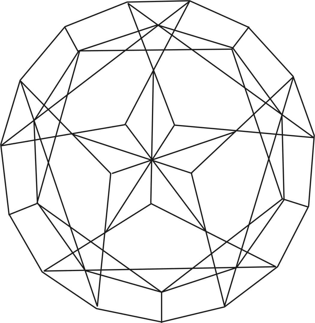 sketch showing Texas Lone Star gem cut